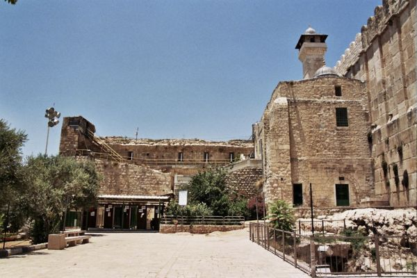 Abraham Avinu Synagogue,Hebron.